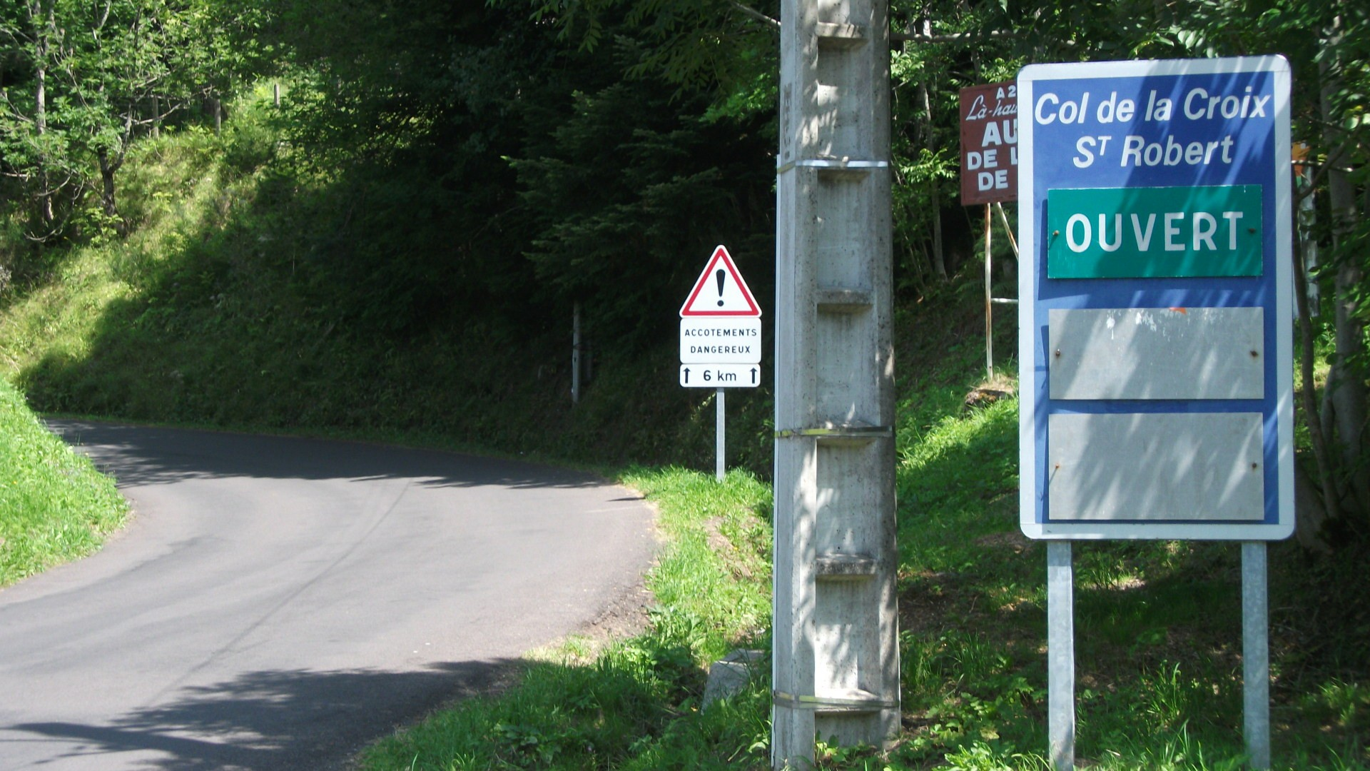 Departmental road 36 in Mont-Dore, towards Besse-et-Saint-Anastaise via Croix-Saint-Robert mountain pass, opened.